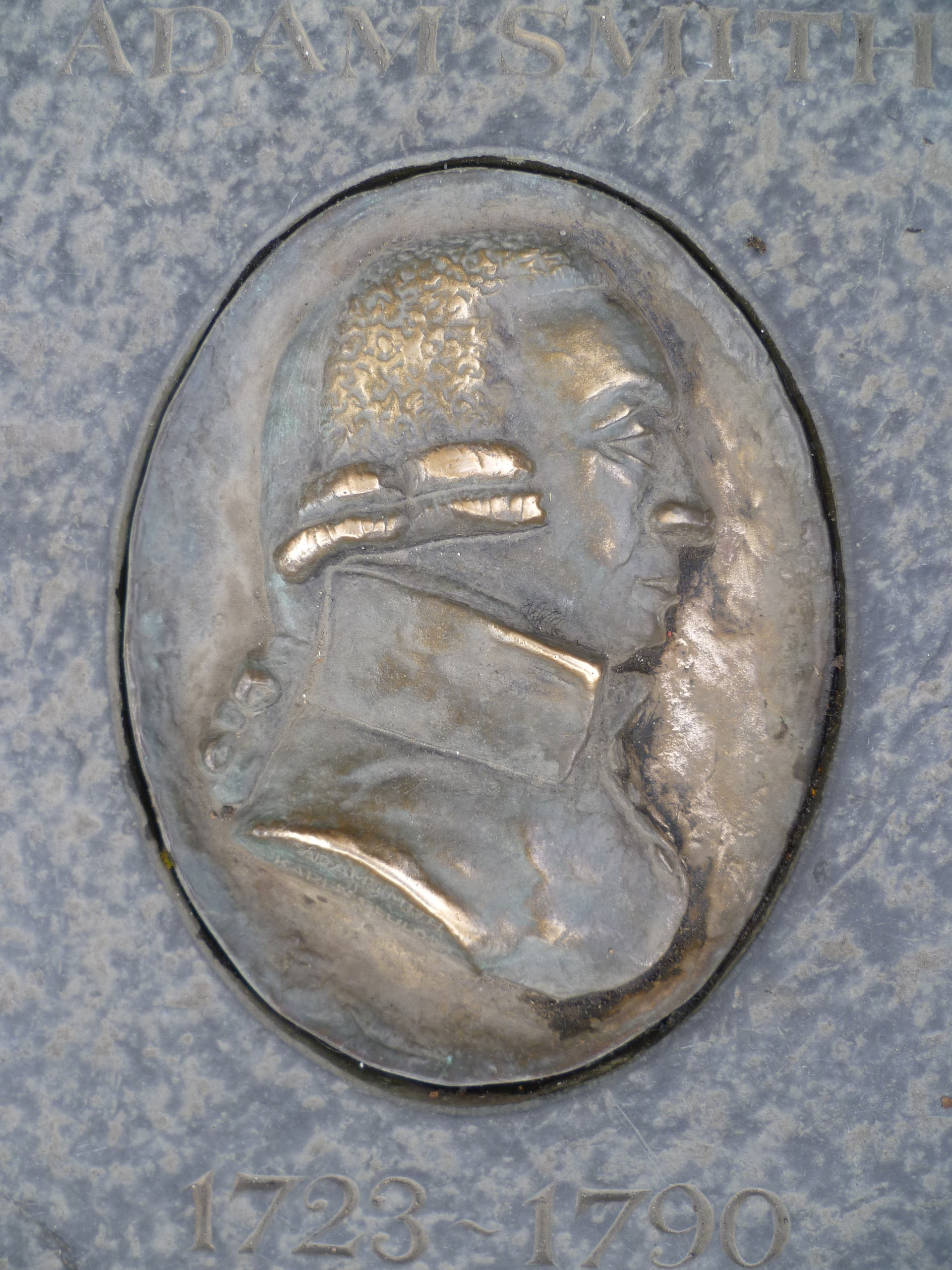 A pavement button in a flagstone which indicates the presence of Smith's grave inside the kirkyard.